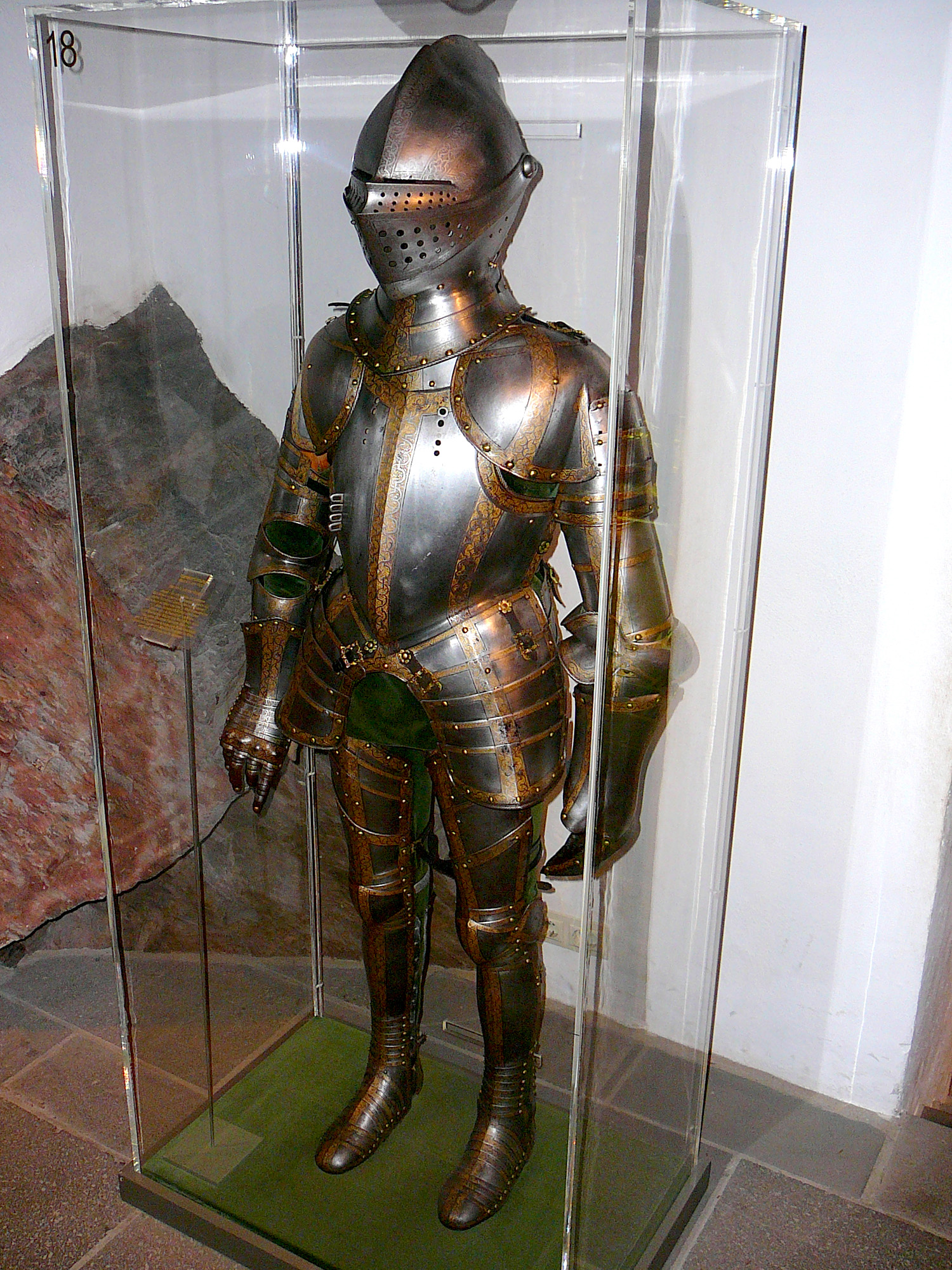 German tournament armour from around 1500 in the collection of the medieval Burg Eltz in Rhineland-Palatinate, Germany.